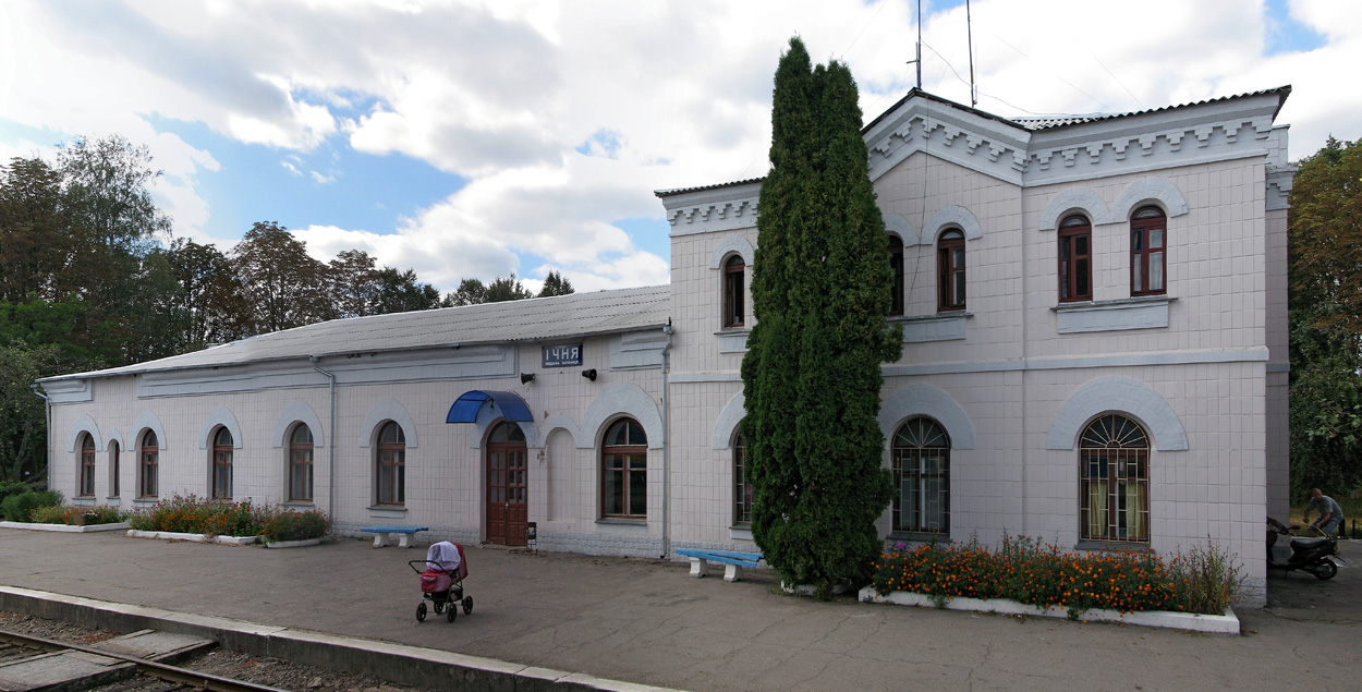 Ichnia railway station, Southern Railway, Ukraine